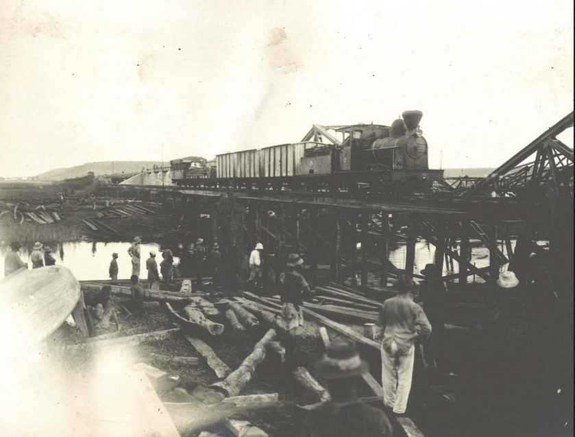 Caption: Le pont du Malagarassi reconstruit en huit jours par les pontonniers belges. Premier convoi circulant sur le Tanganyikabahn. (SEPTEMBRE, 1916)